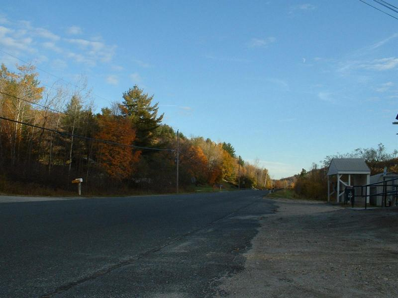 The view down Route 116 in Savoy, Massachusetts Route 116 eastbound in front of Town Hall, Savoy, Mass.